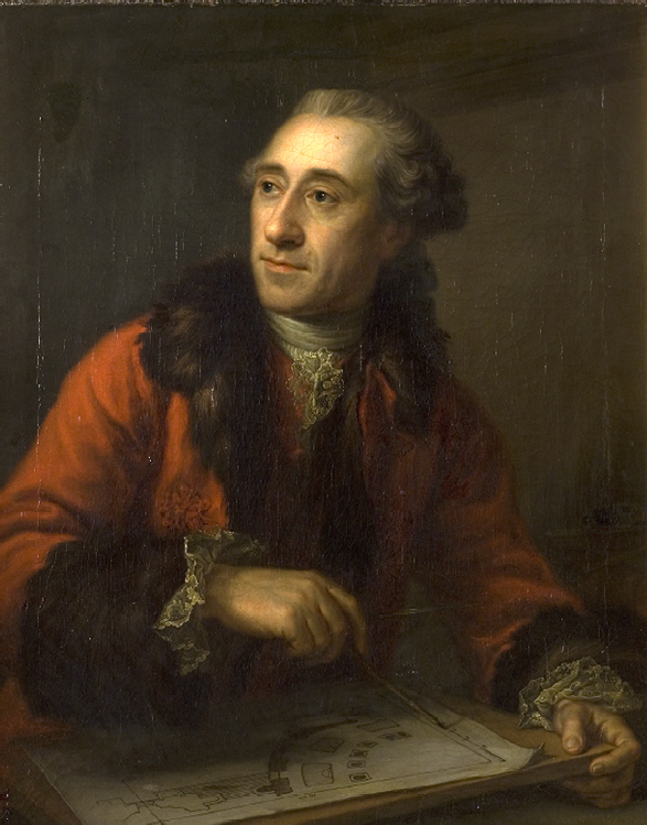 Portrait of Nicolas-Henri Jardin (1720-1799)